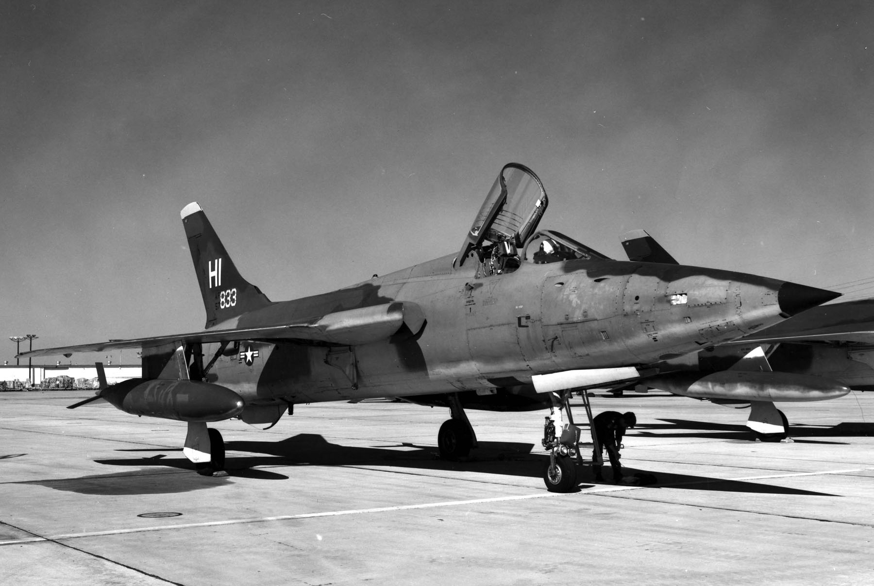 Republic F-105B-20-RE (S/N 57-5833) of the 466th Tactical Fighter Squadron, 508th Tactical Fighter Wing, Hill Air Force Base, Utah (USA). Photographed at Kelly Air Force Base, Texas, in February 1973.